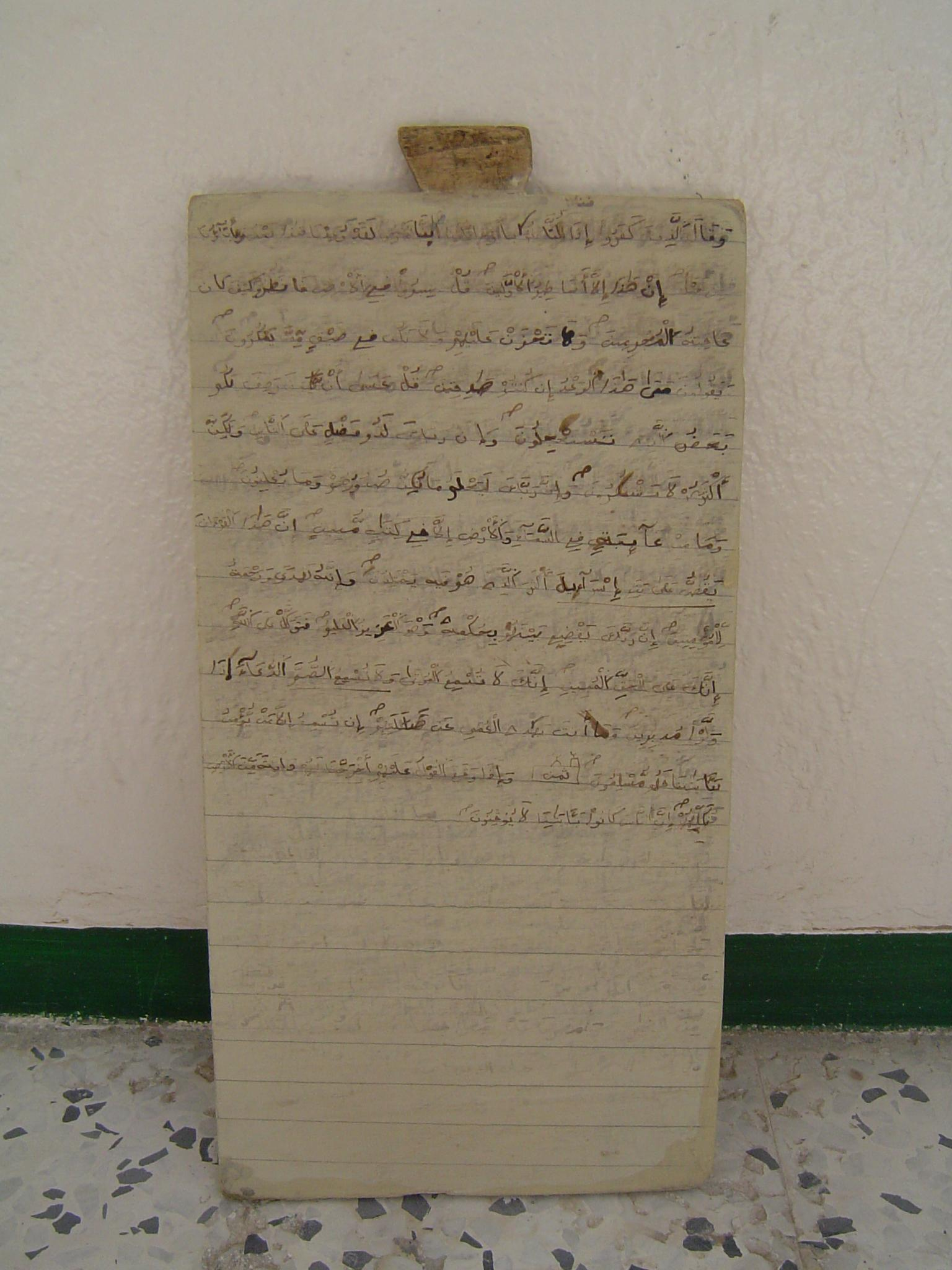 Quran studying board shot in Almayyit Mosque Tripoli - Libya